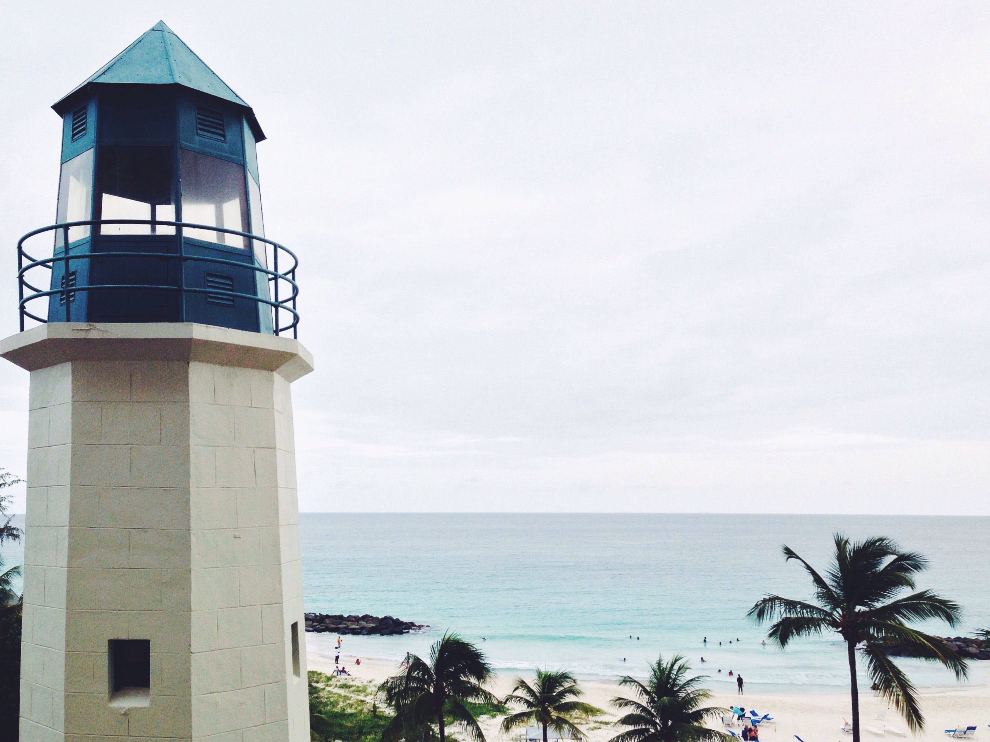 Needhams Point Lighthouse.